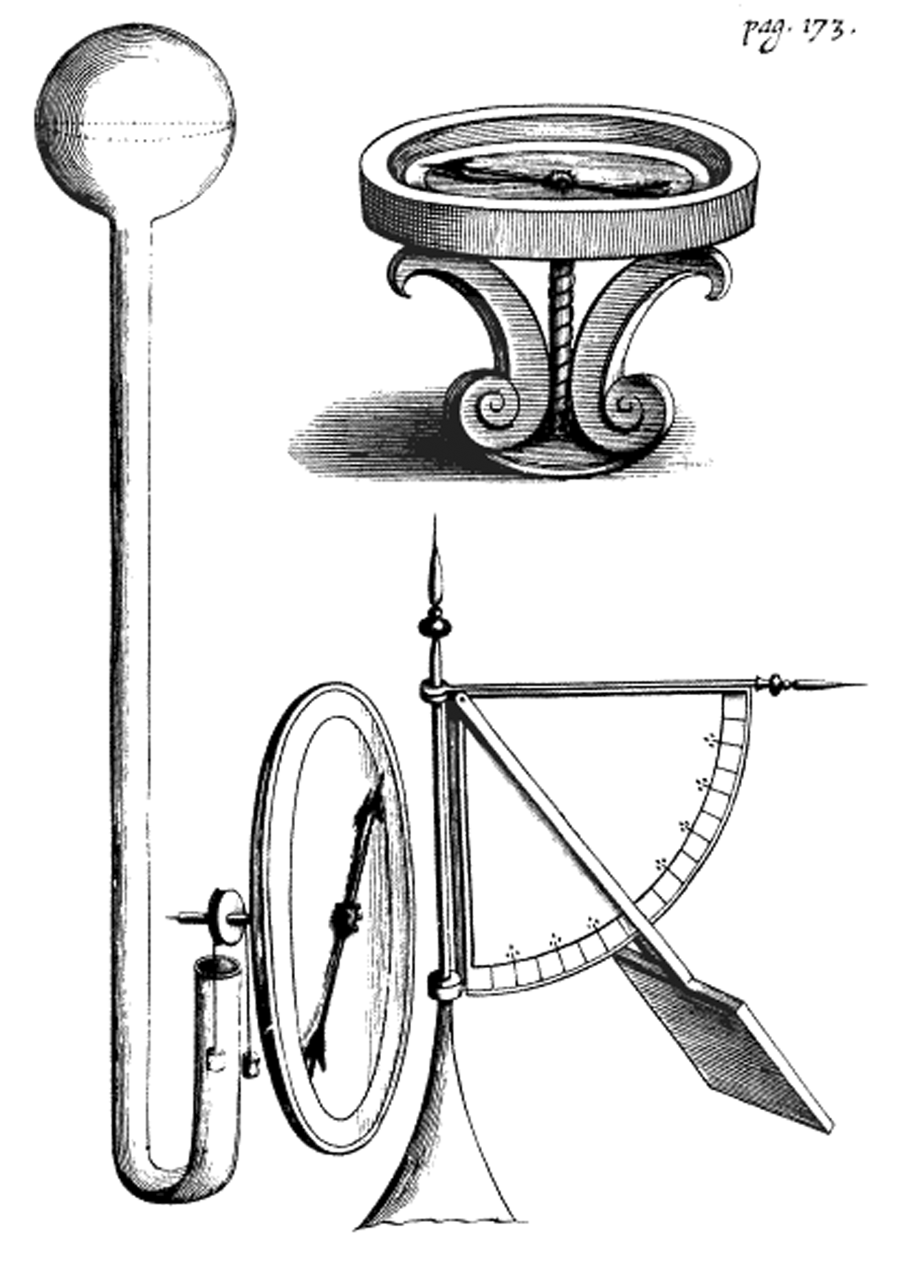 Wheel-barometer, hygrometer, and wind gauge